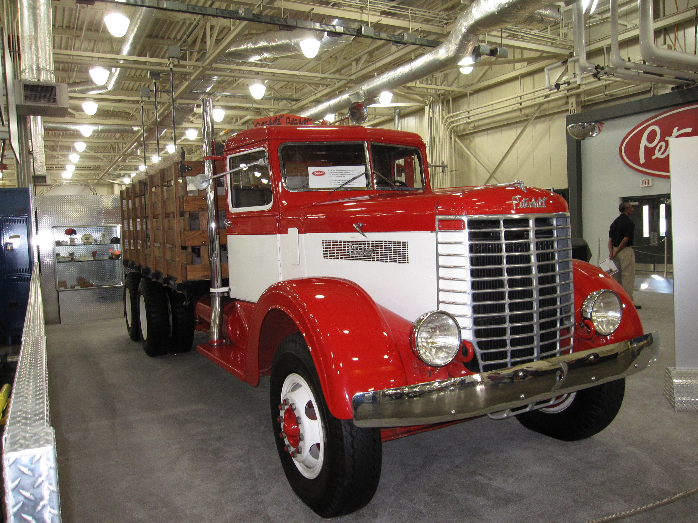 1939 Peterbilt 334, one of fourteen trucks built by Peterbilt in their first year of production.